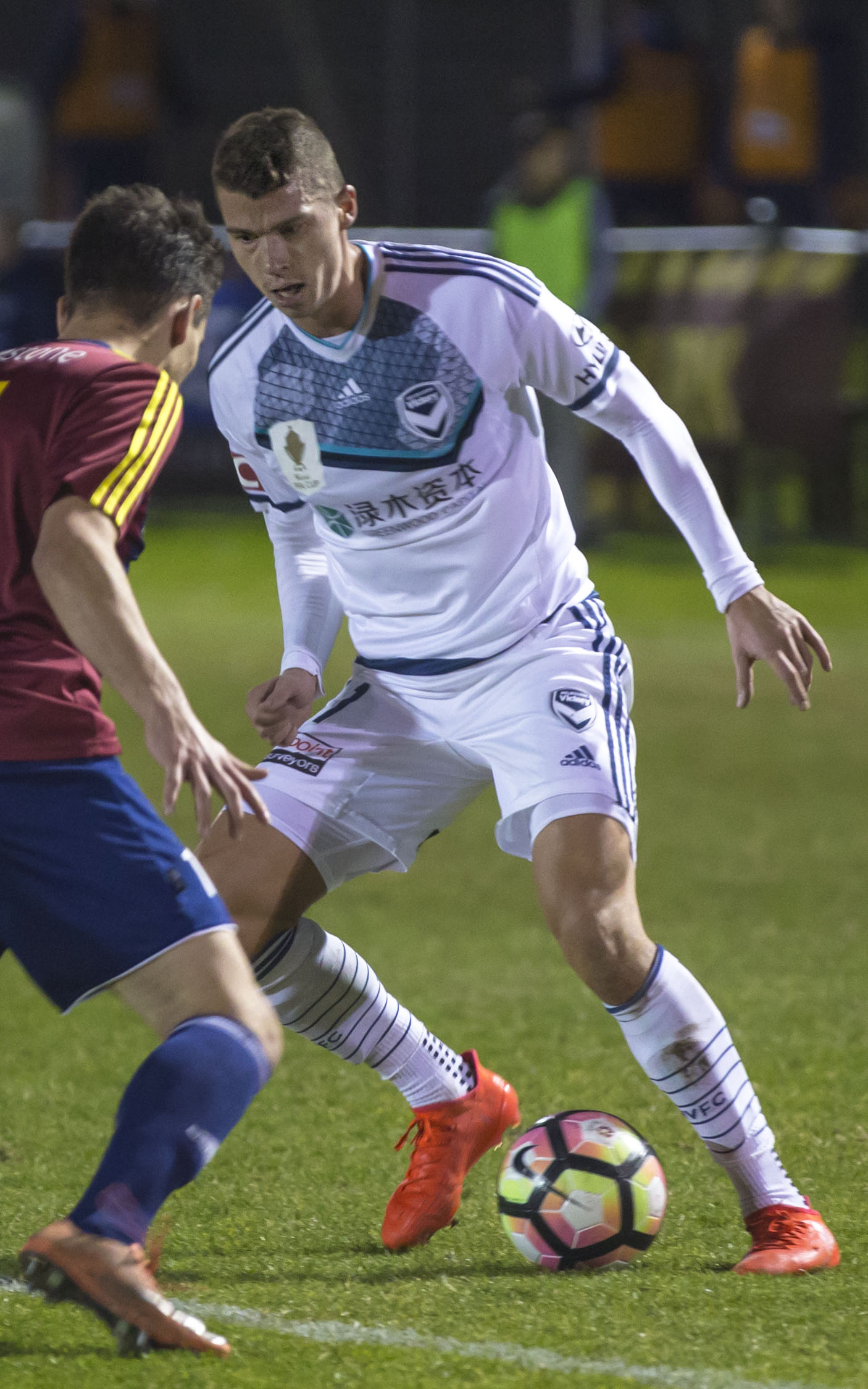 Mitch Austin playing for Melbourne Victory in a friendly match against Port Melbourne, 9 August 2016